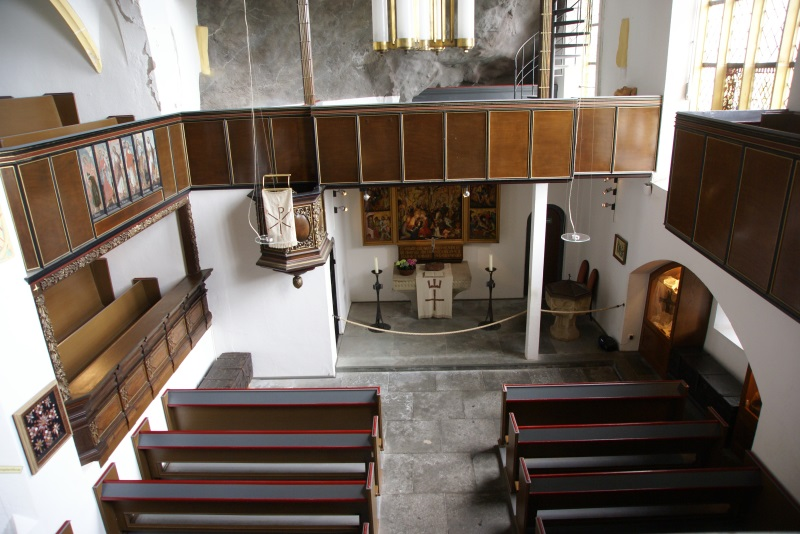 Felsenkirche, Idar-Oberstein, Germany. Interior as seen from galery.